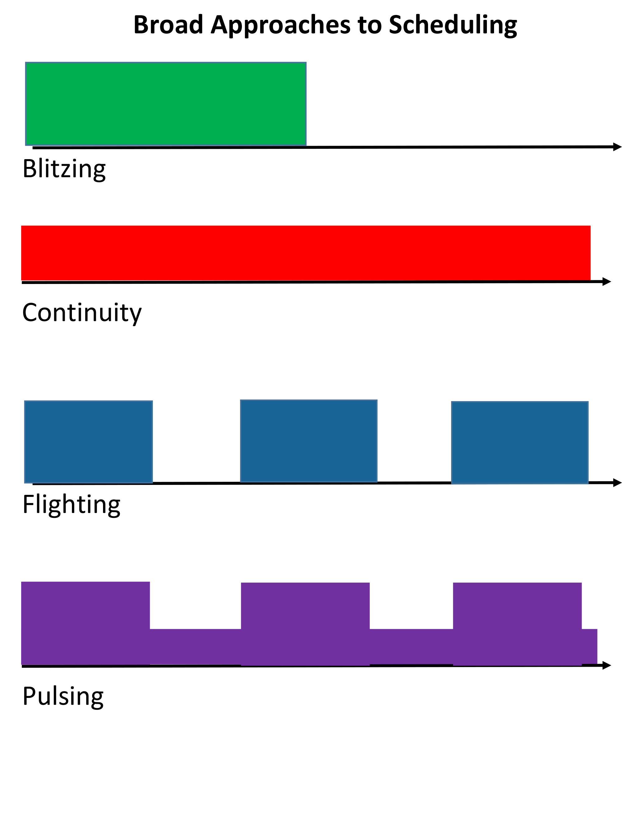 hypothetical schedules based on well-known concepts; created in Photoshop by self